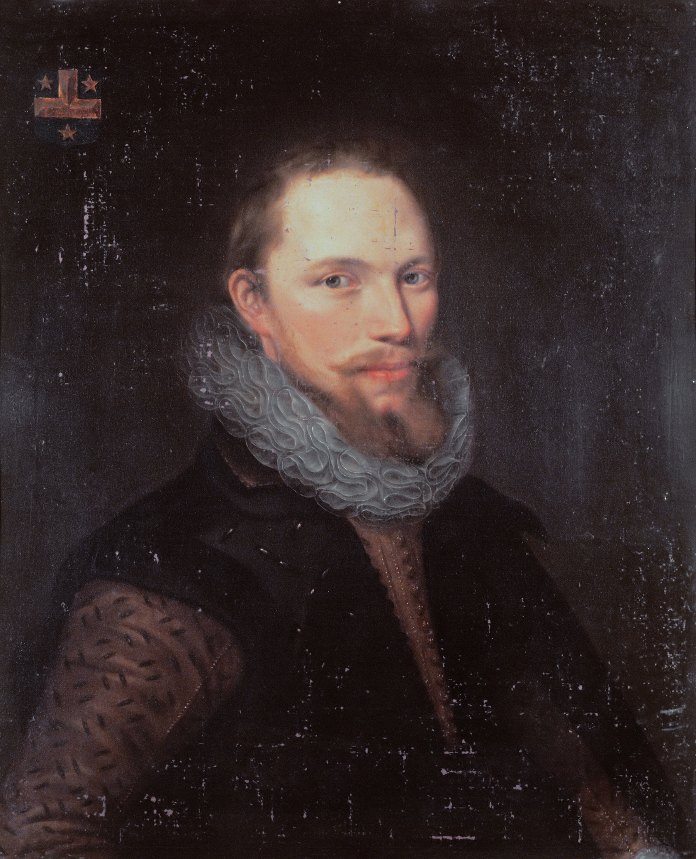 Michiel Pauw (1590- ) oil on canvas 70 x 58 cm 1618